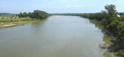 The Kansas River near De Soto, Kansas.